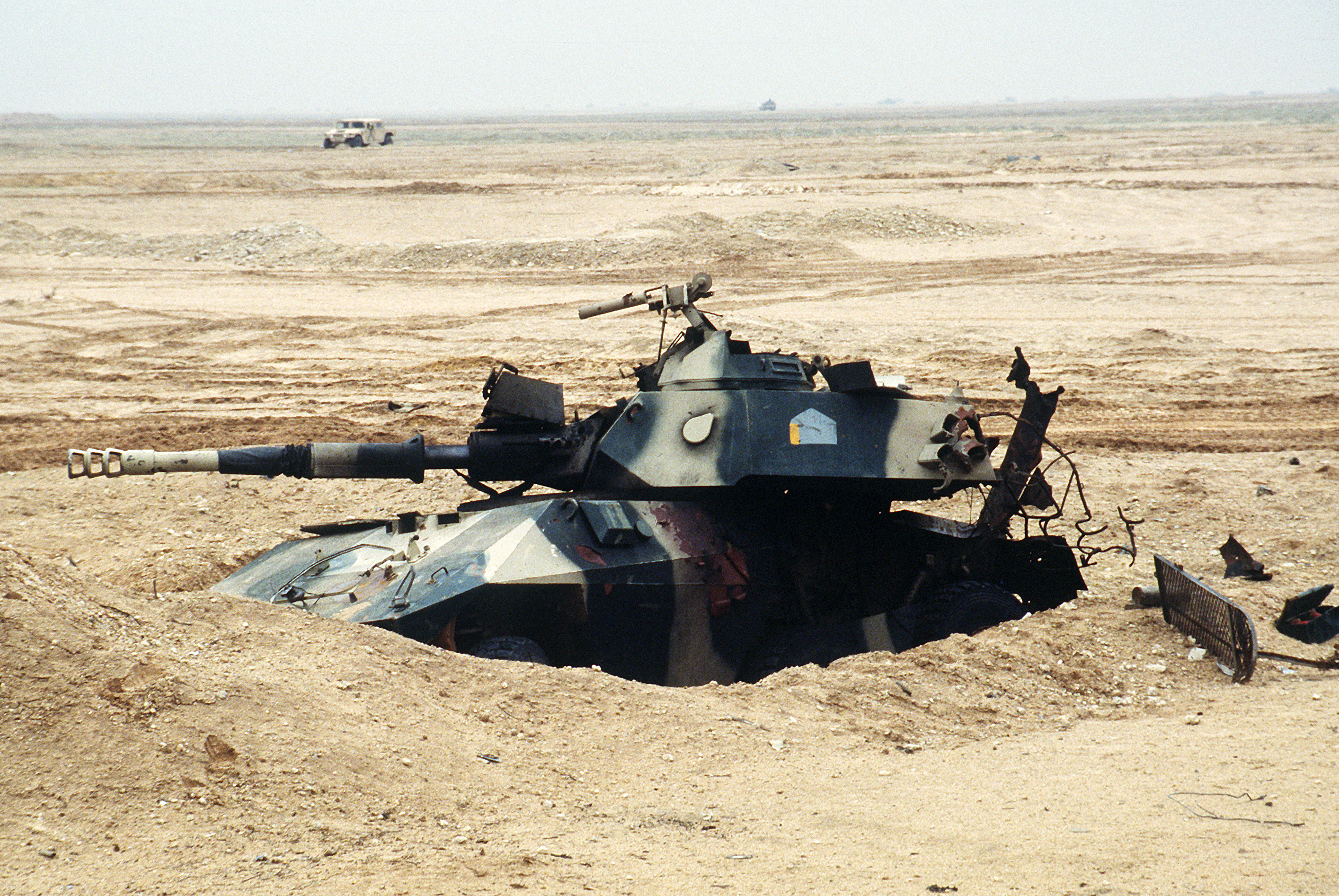 A battle-damaged Iraqi EE-9 Cascavel armored car remains buried in the sand north of Saudi Arabia during Operation Desert Storm.